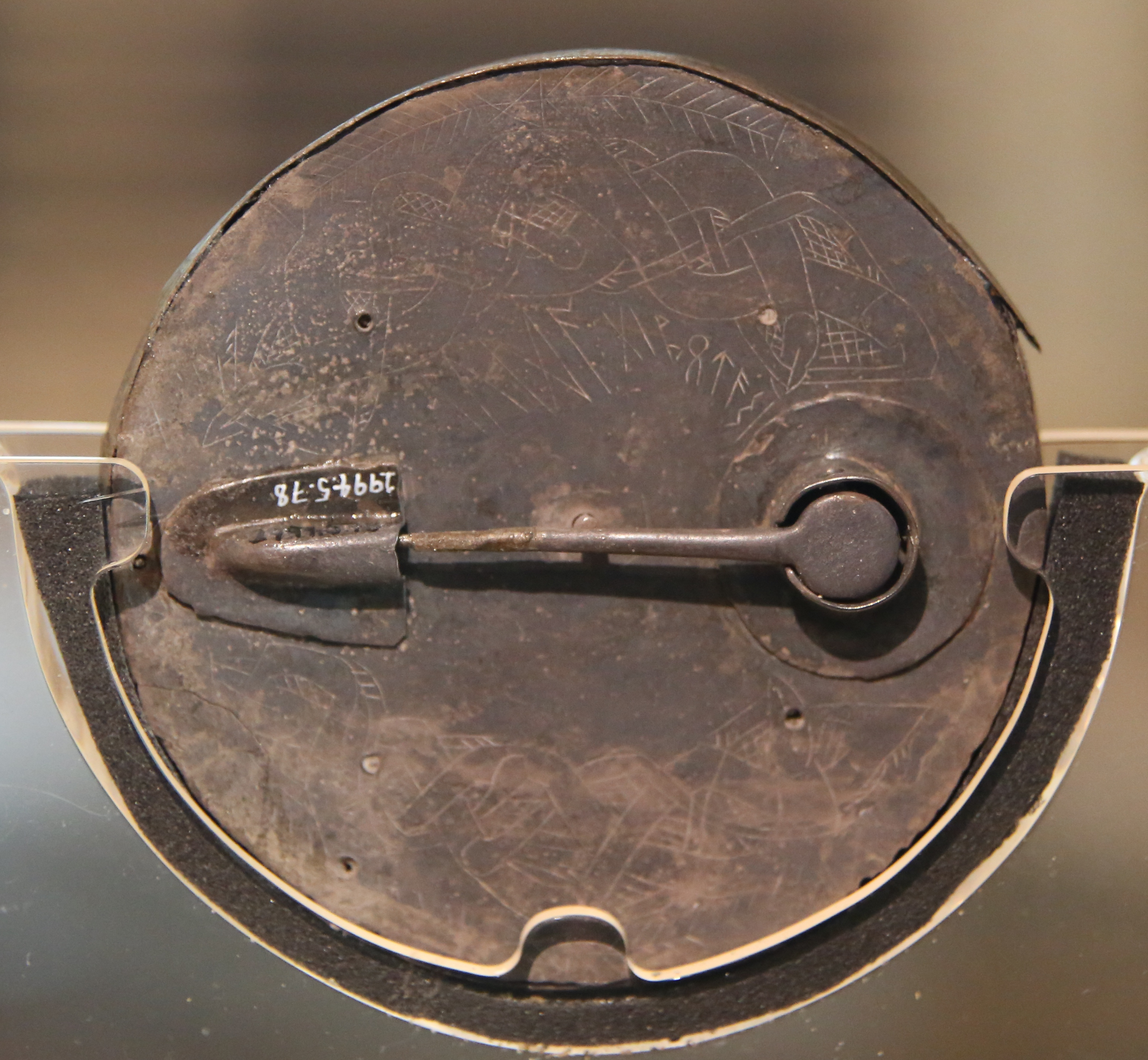 Photo of the back of the Harford farm brooch